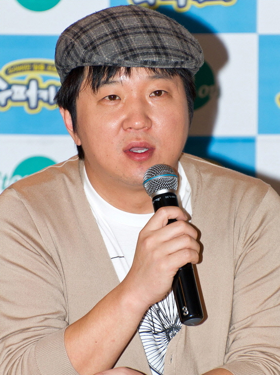 Jeong Hyeong-don at CJ E&M StoryOn Superkids premiere, in March 2011